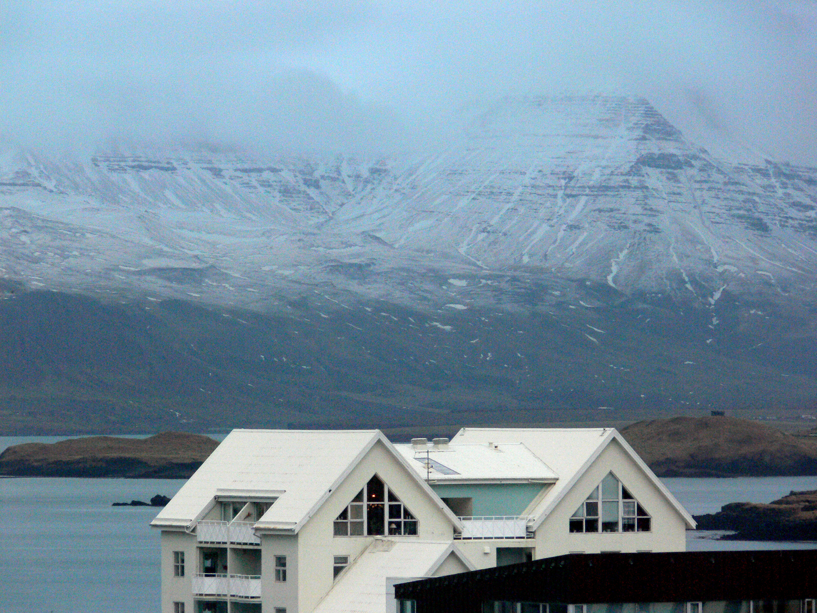 Mount Esja in winter. In the foreground houses from Reykjavík, behind it the isle Viðey. Christian Bickel